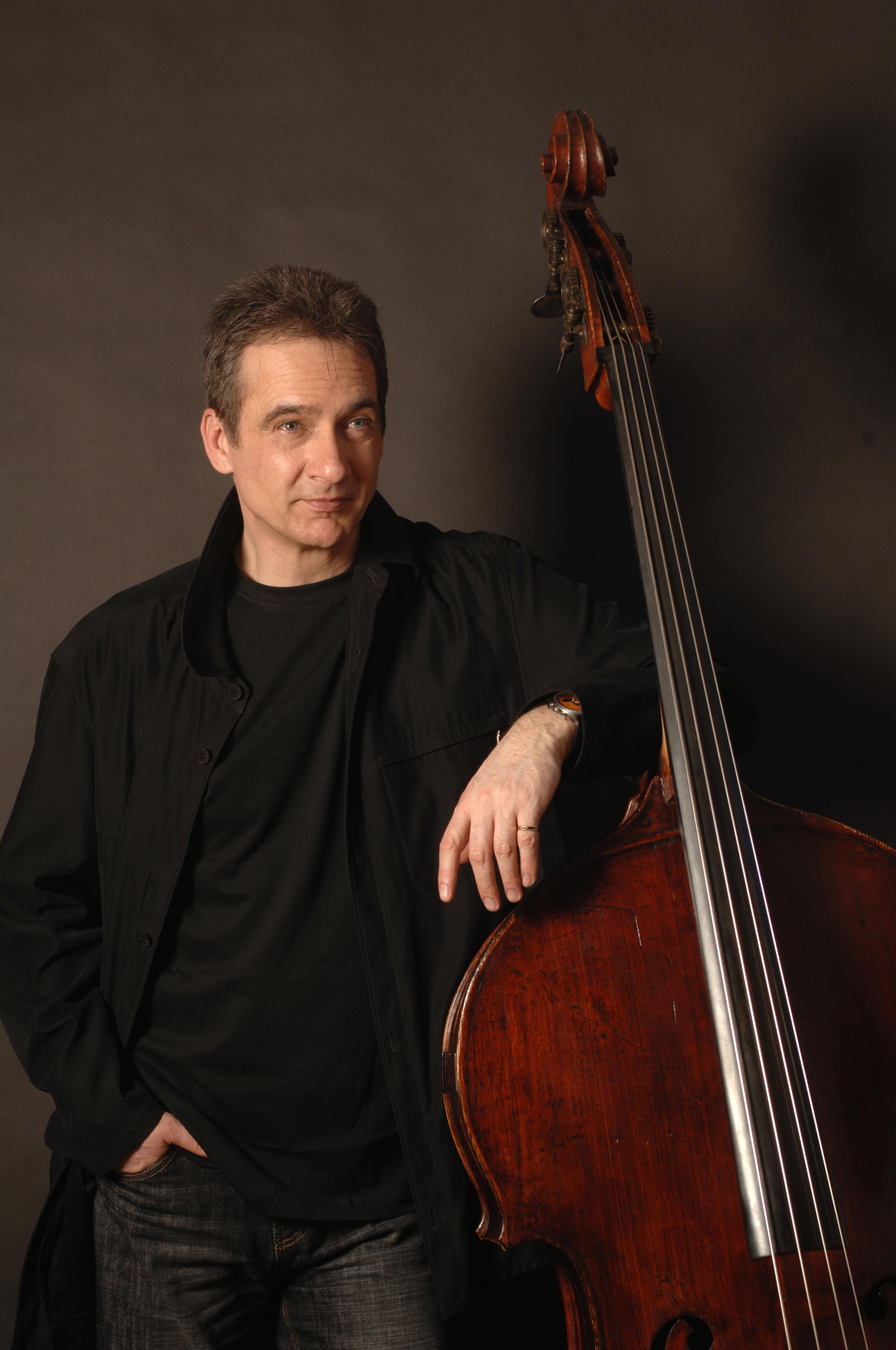 The jazz-composer and bassist Manfred Bruendl